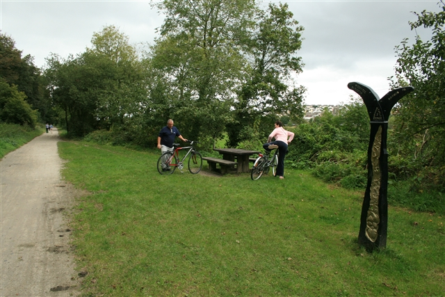 National Cycle Route 32 - Camel Trail This picnic bench is at the point where the trackbed of the old North Cornwall Railway (from Launceston and Camelford - ) joins the Camel Trail Camel_Trail (the old Bodmin and Wadebridge railway - Bodmin_and_Wadebridge_Railway ). Also seen is a Mills-type milepost . The Camel Trail forms only part of NCR32 - after Wadebridge and Padstow the NCR continues to Newquay and Truro, forming part of the Cornish Way ( The_Cornish_Way ).